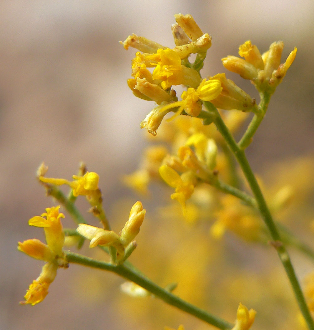 Gutierrezia microcephala near highway 160 where it passes north of the Bird Spring Range (4 km SW of Blue Diamond), Red Rock Canyon, Spring Mountains, southern Nevada (elev. about 1200 m)